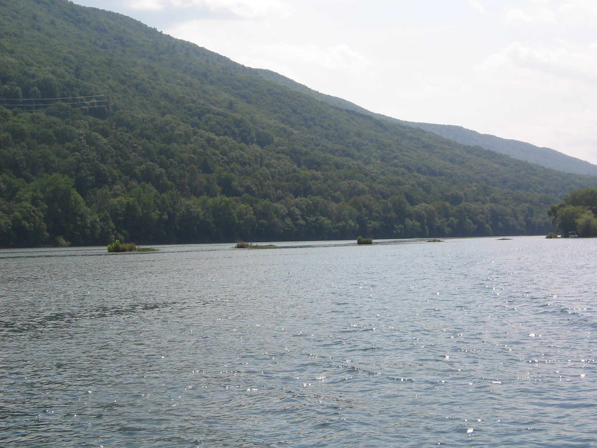 Islands in the West Branch Susquehanna River from the cribs for the Susquehanna log boom. Taken from the Hiawatha river boat in Susquehanna State Park, Lycoming County, Pennsylvania, USA